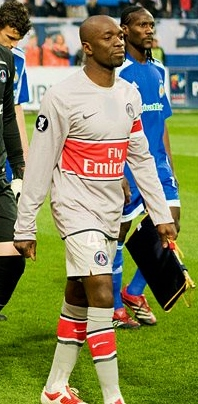 Claude Makélélé